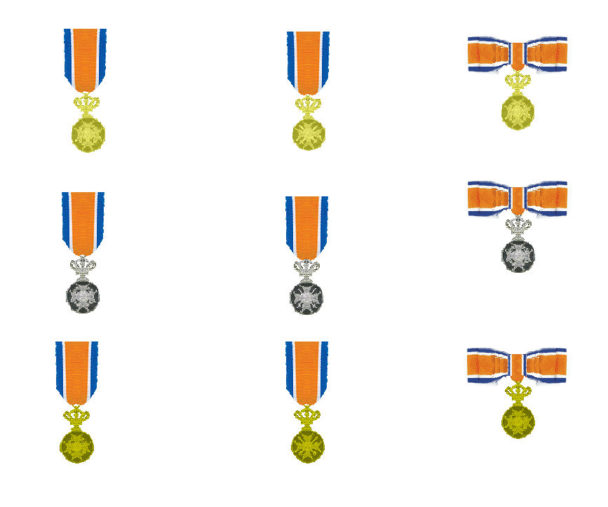 Order of Orange Nassau, the abolished Medals of Honour